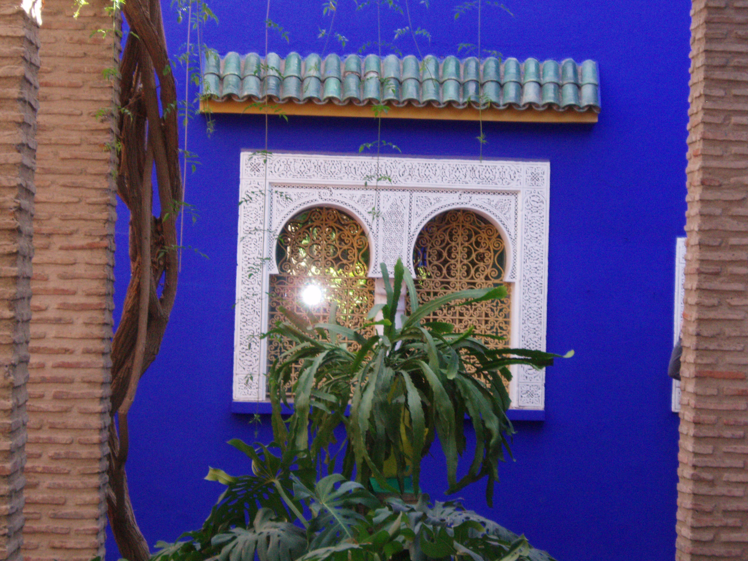 The Majorelle Garden is a botanical garden in Marrakech, Marocco.